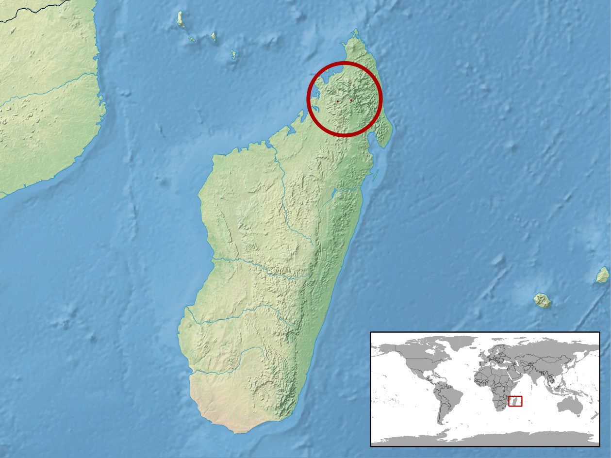 geographic distribution of Calumma hafahafa (Native: Madagascar)